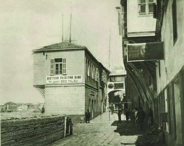 Branch of the Deutsche Palastina Bank in Jaffa (Haifa) before WWI. On the right, the sign of the Austrian post office (K. K. Österreichische Post) is visible. Austria had been the first, among a handful of Western countries, to open and operate post offices throughout the Ottoman Empire. From a book of 26 sepia photographs published by the Deutsche Palastina Bank before WW1.